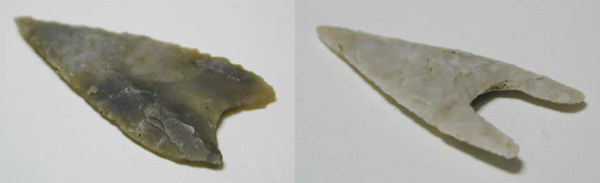 Two Late Neolithic flint arrowheads from Södra Kyrketorp parish, Gudhem hundred, Falköping municipality, former Skaraborg county, Västergötland, Västra Götaland county, Sweden. The arrowheads belongs to Falbygdens museum in Falköping. They have a length of 3.0 cm respective 3.1 cm.